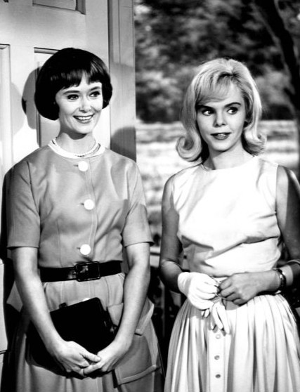 Photo of Christine White as cast regular Abby Adams (left) and guest star Jenny Maxwell from the television program Ichabod and Me.